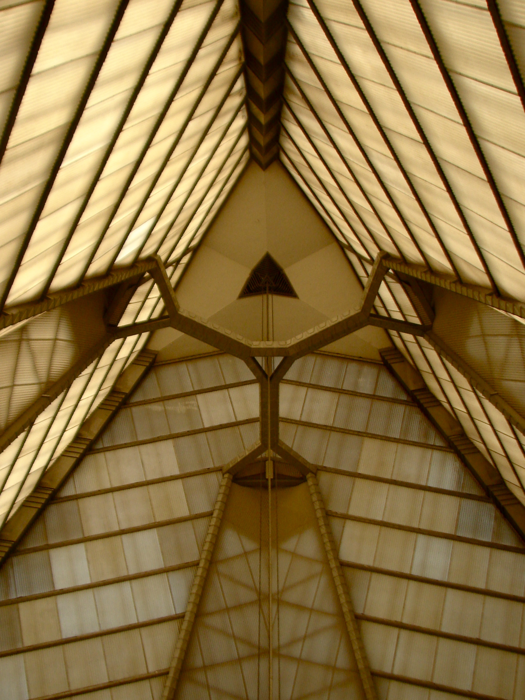 Beth Sholom Synagogue, looking up in the sanctuary to the top of the roof. Designed by Frank Lloyd Wright.